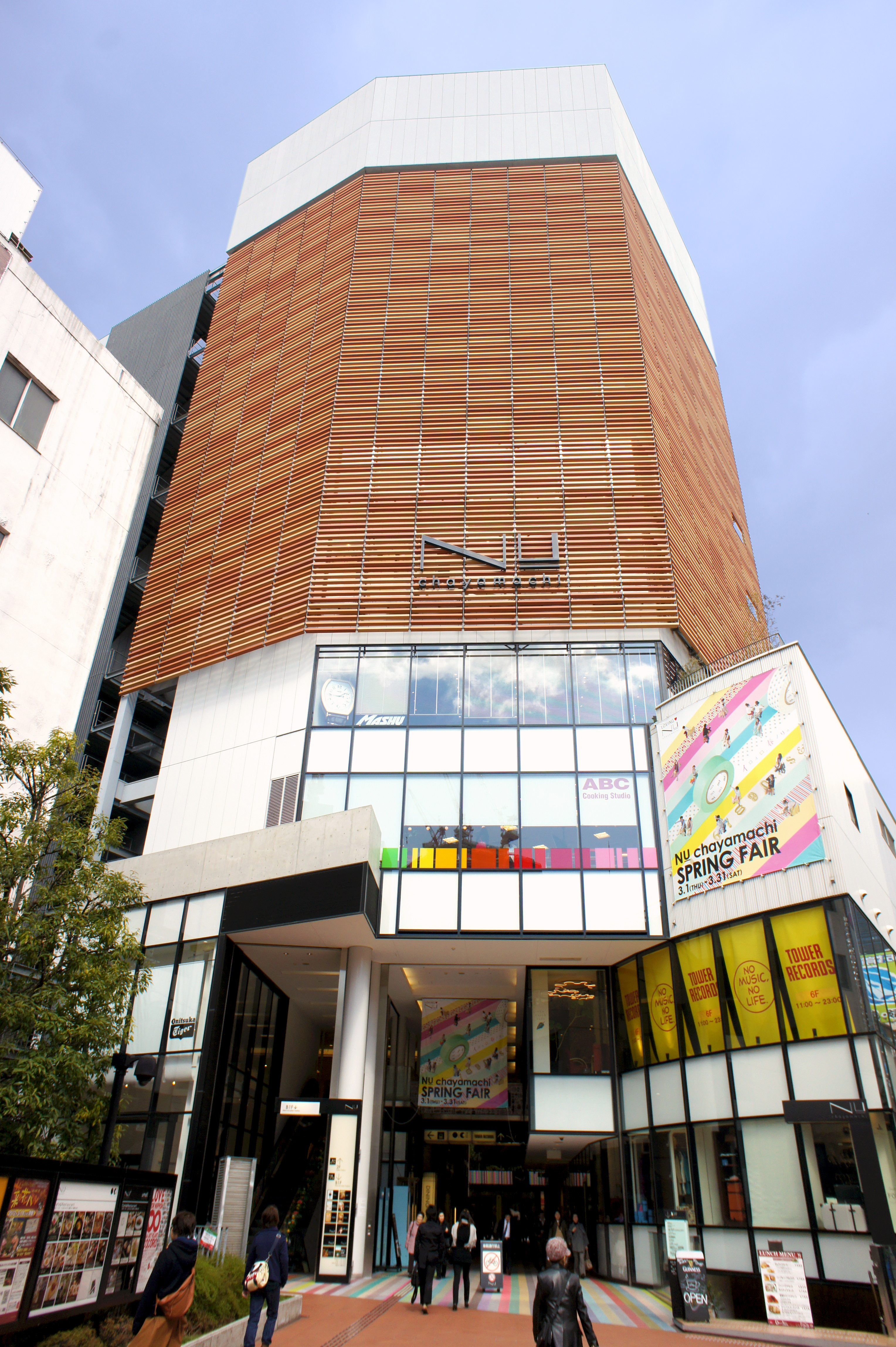 NU chayamachi, 10-12 Chayamachi Kita-Ku Osaka-City Osaka Japan.